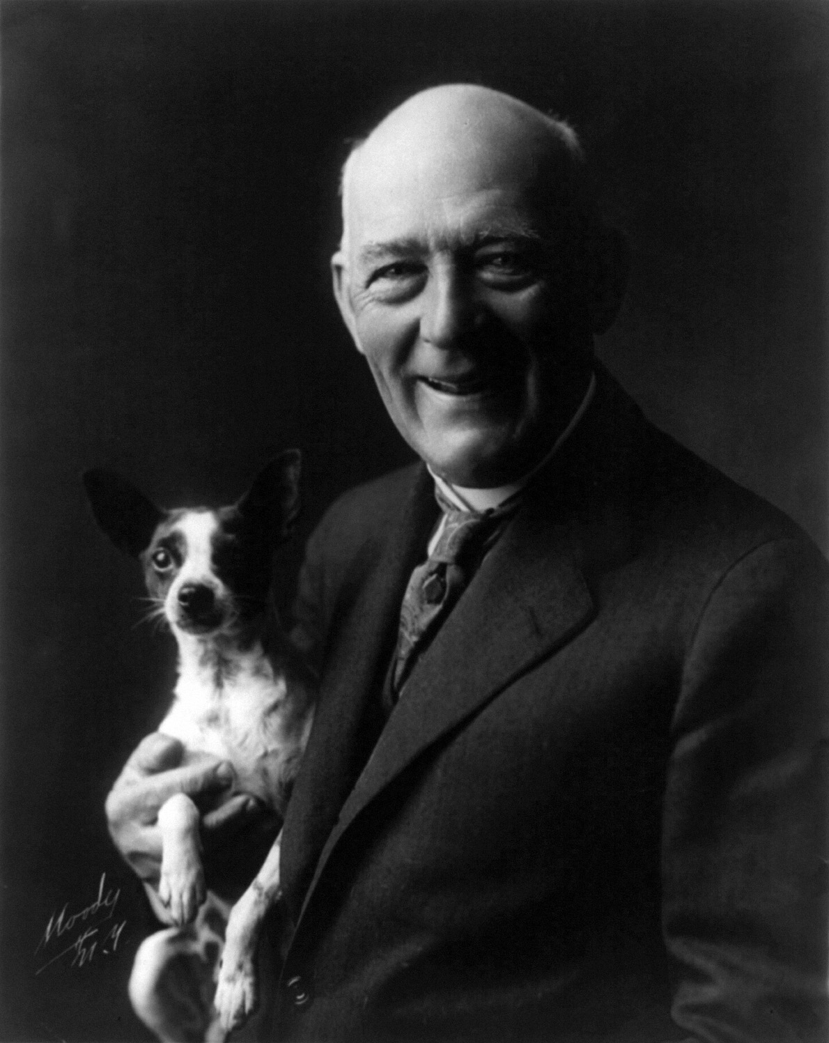 Harry Kellar, 1849-1922, magician. Half length, standing, facing left; holding dog. Undated photoprint by Moody, N.Y.C. Taken from the McManus and Young Collection at the U.S. Library of Congress. [PD] This picture is in the public domain.